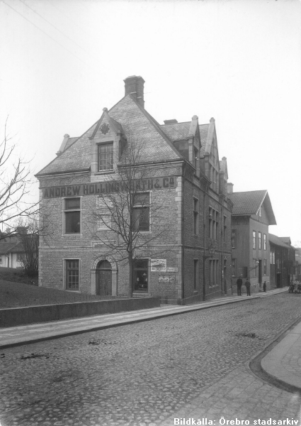 The old school in Örebro, Sweden